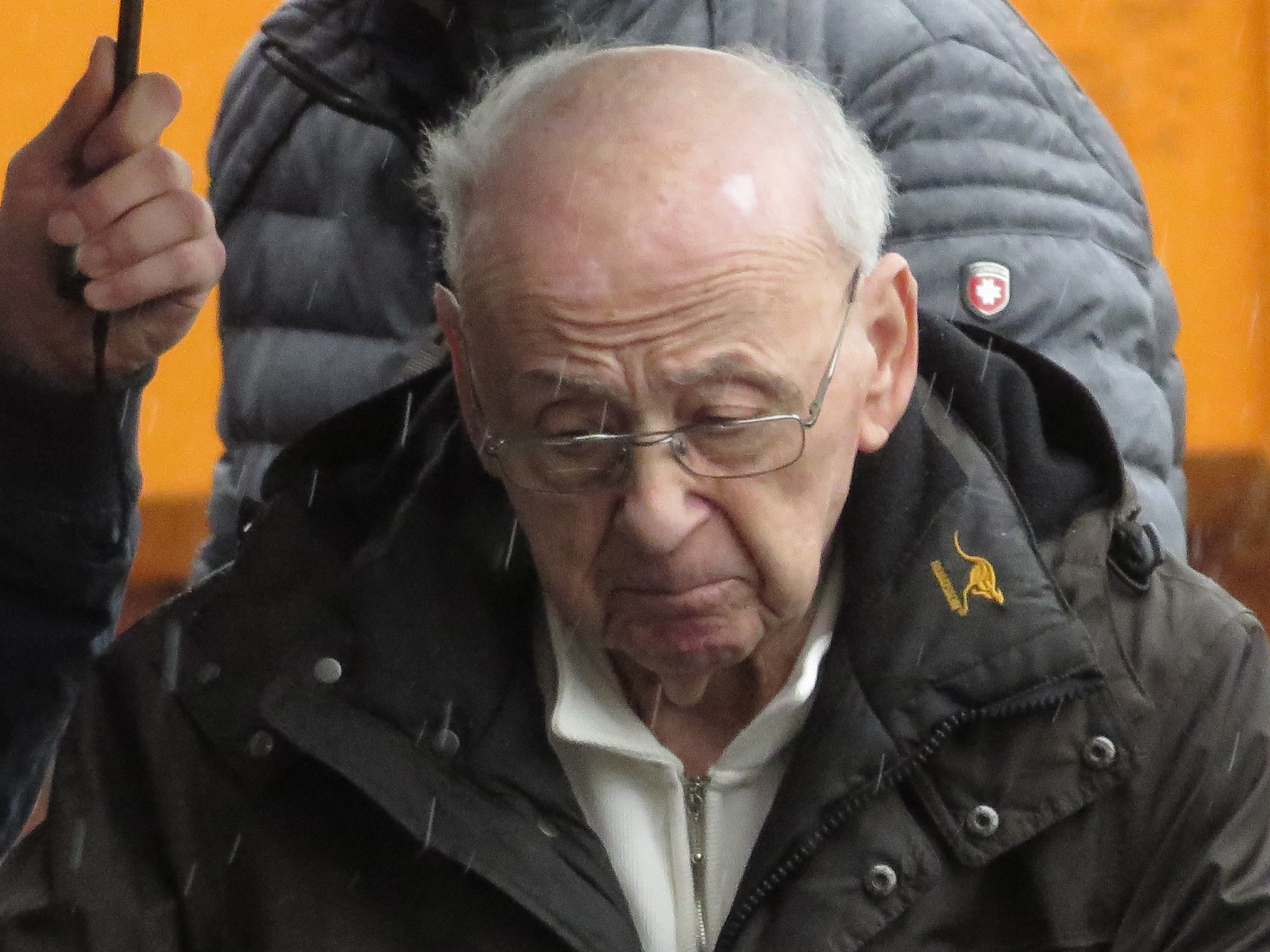 Rolf Abrahamsohn, German merchant